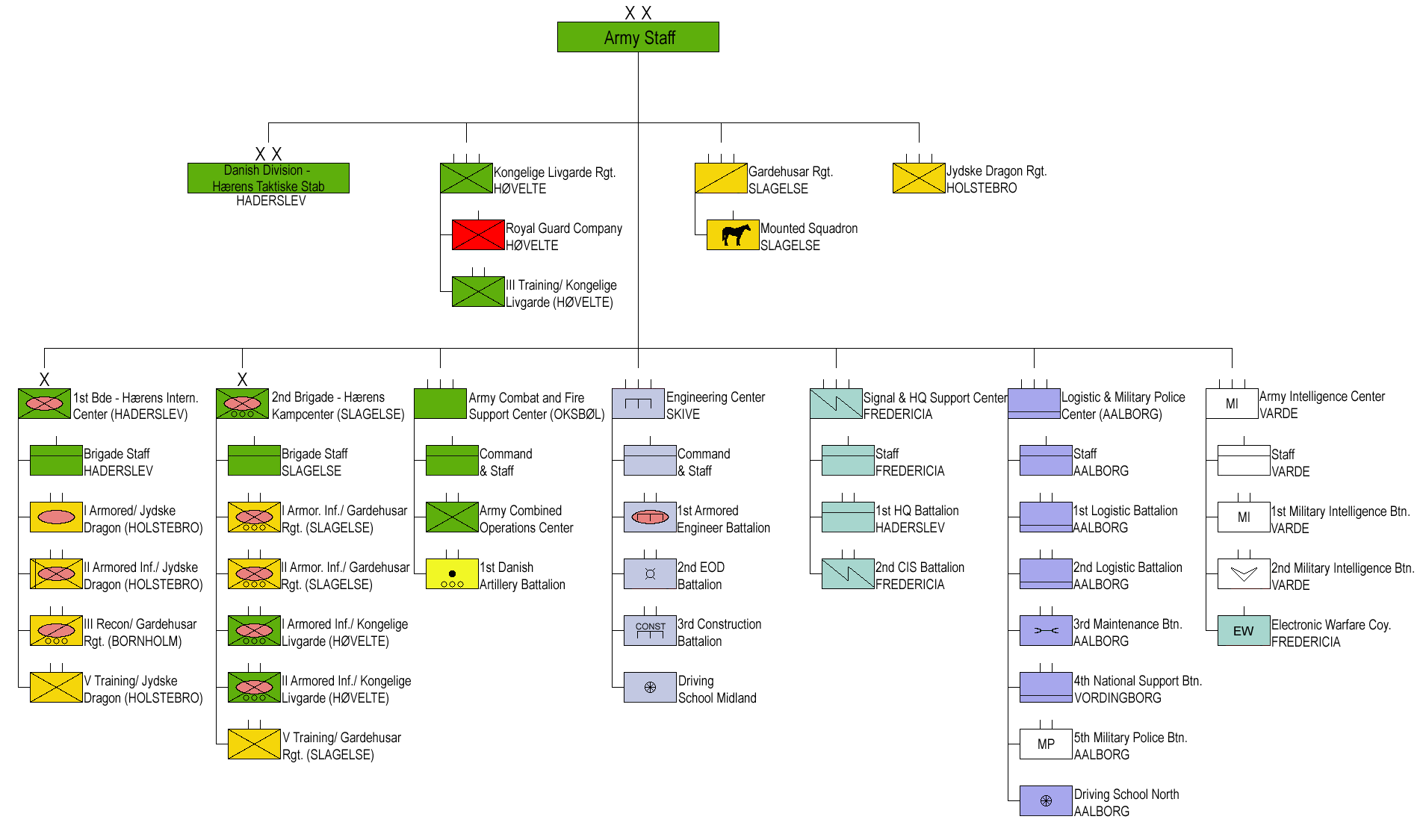 Structure of the Royal Danish Army since 2013